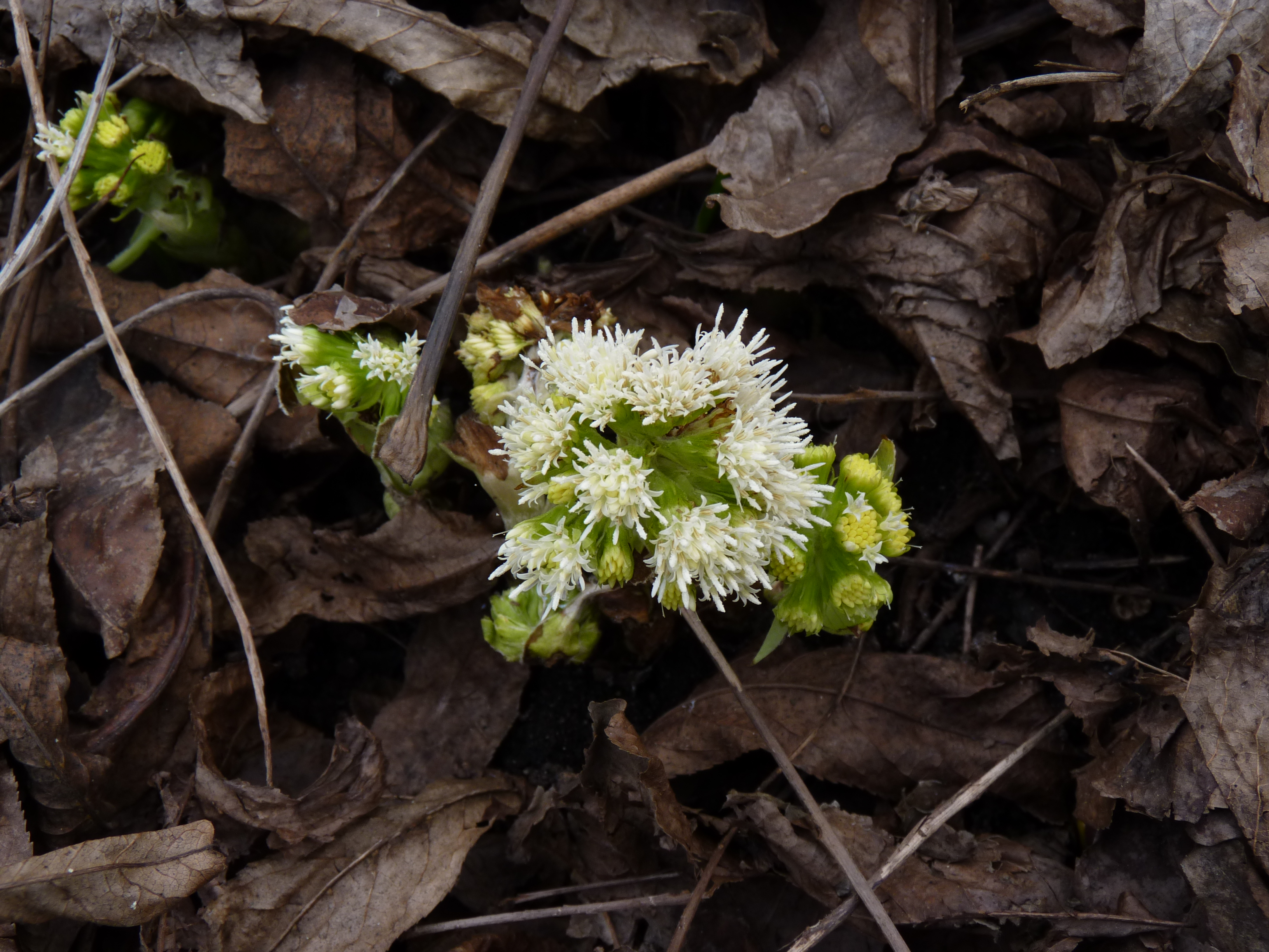 Petasites albus in The Botanical Gardens of Charles University